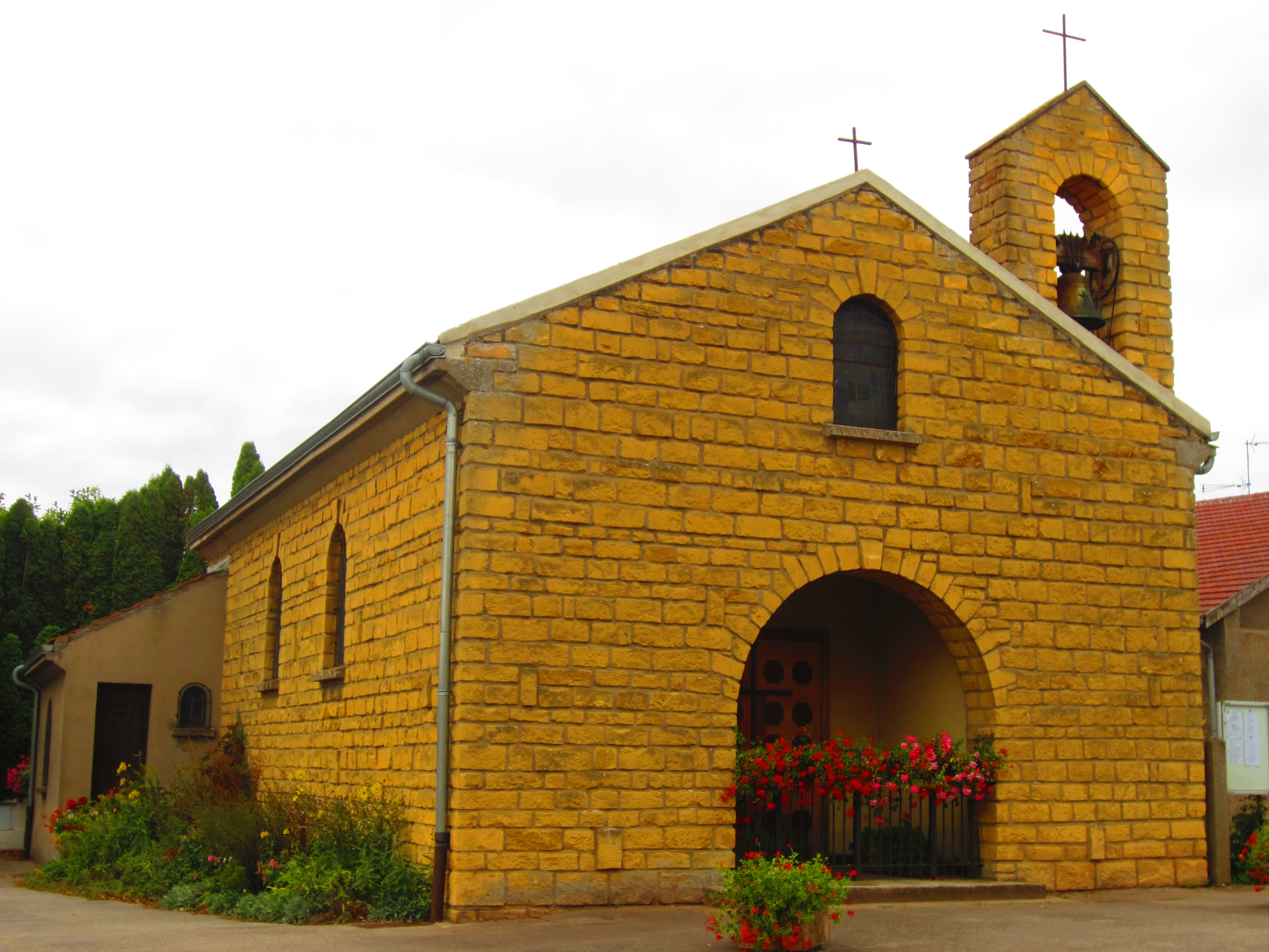 Sanry Nied church